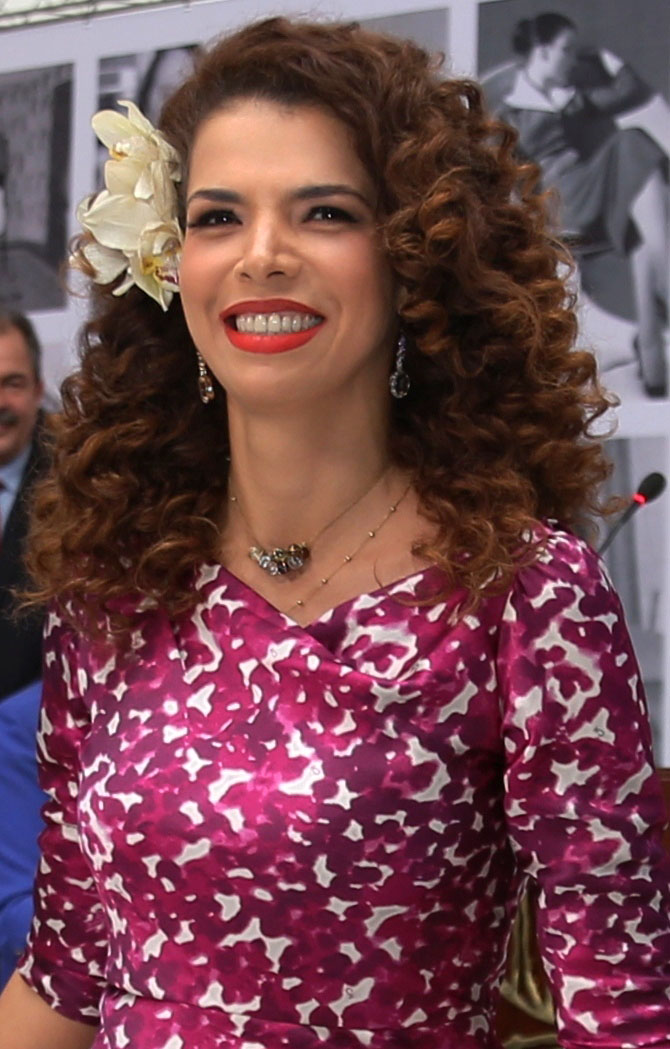 Cerimônia de entrega das Medalhas da Ordem do Mérito Cultural 2014.